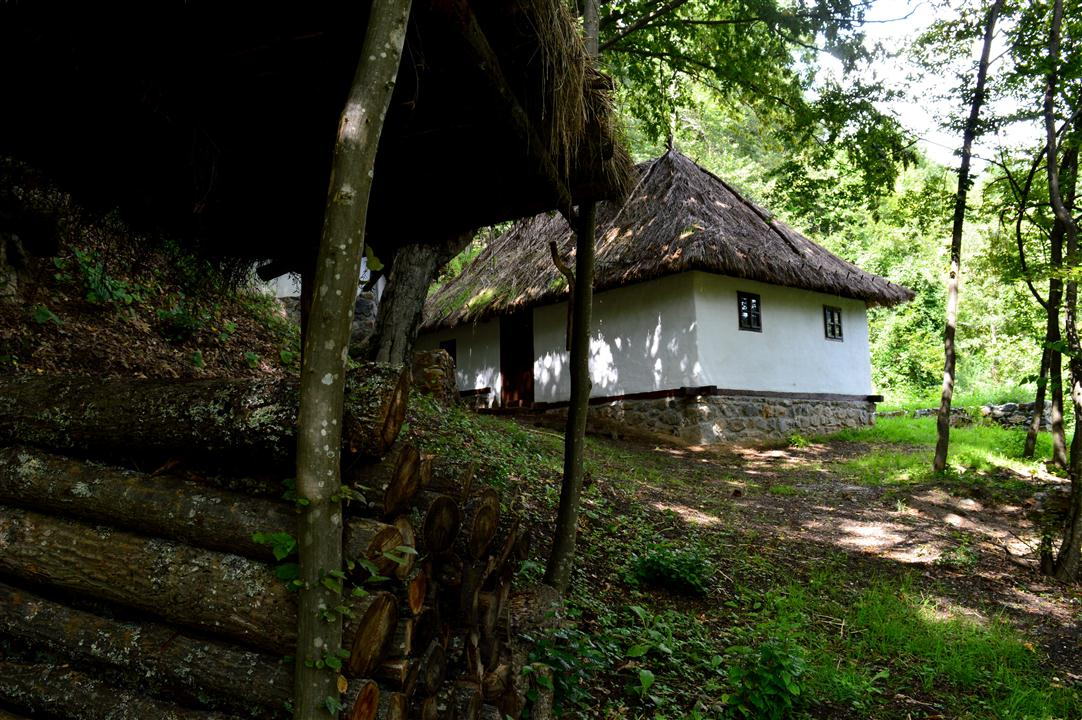 Raska Municipality - Koprivnica